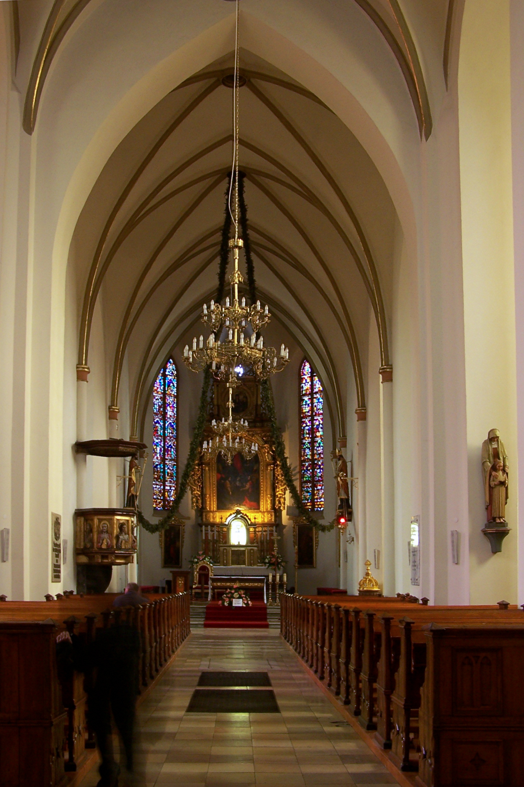 St. Mary's Church in Bytom (Poland).